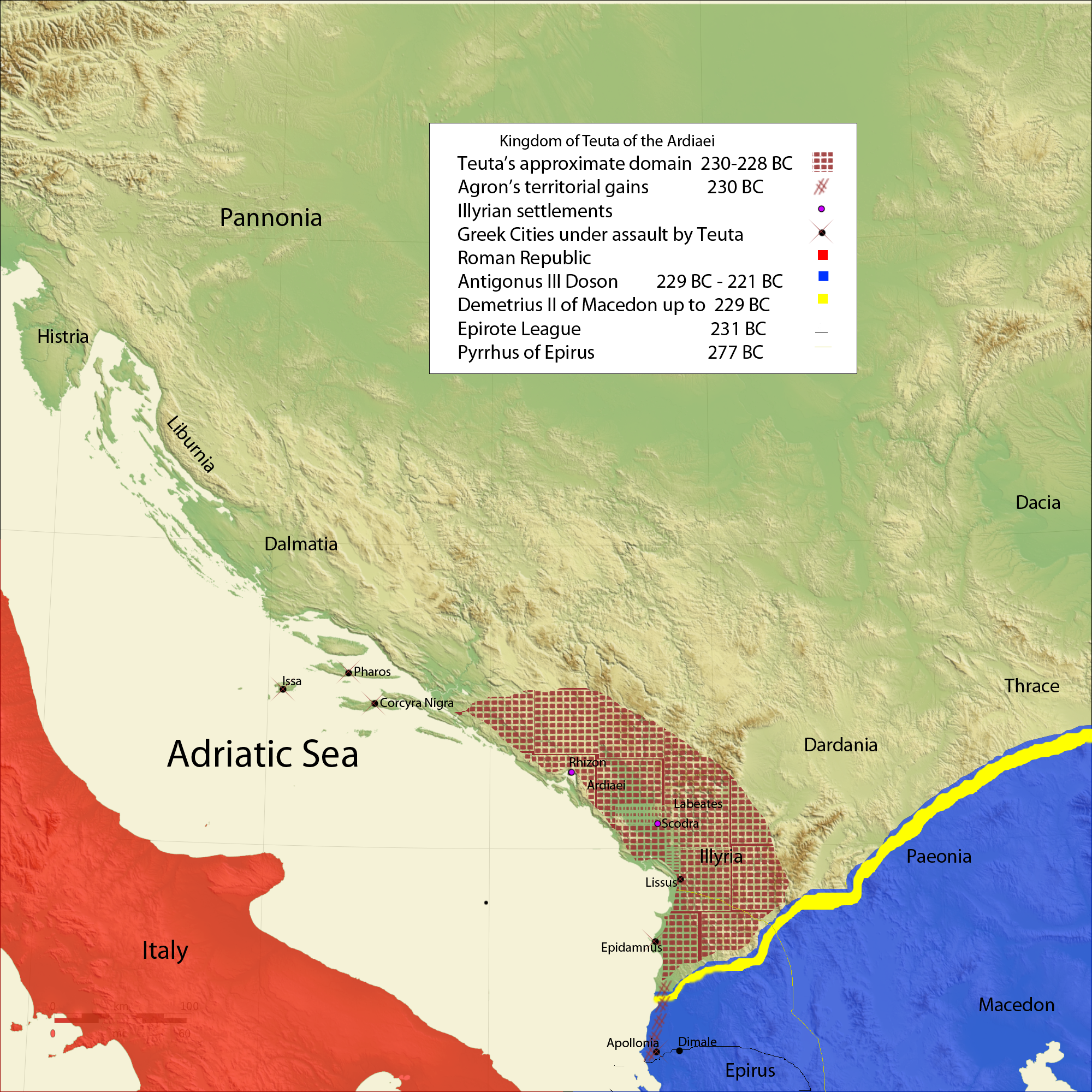 Kingdom of Teuta of the Ardiaei and neighboring kingdoms. A History of Macedonia: 336-167 B.C By Nicholas Geoffrey Lempriere Hammond, Frank William Walbank,1988,ISBN -0198148151 Epire, Illyrie, Macedoine: melanges offerts au professeur Pierre Cabanes by Daniele Berranger,Pierre Cabanes,Daniele Berranger-Auserve The Illyrians by J. J. Wilkes,1992,ISBN 0631198075, Epirus, 4000 years of Greek history and civilization by M. B. Hatzopoulos Blank map,File:Yugoslavia_topographic_base_map.svg